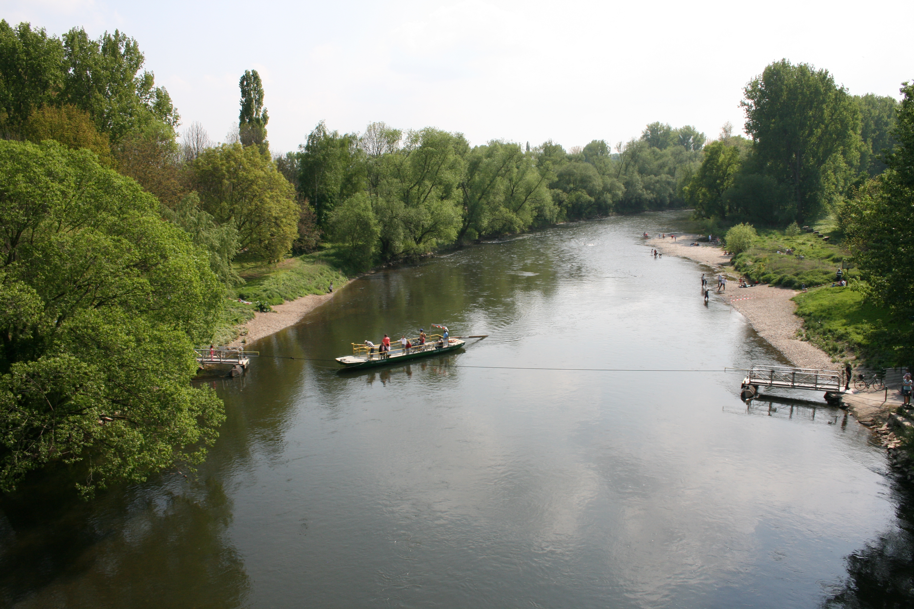 reaction ferry "St.Adelheid" upon german river Sieg, located at Troisdorf-Bergheim nearby Bonn.